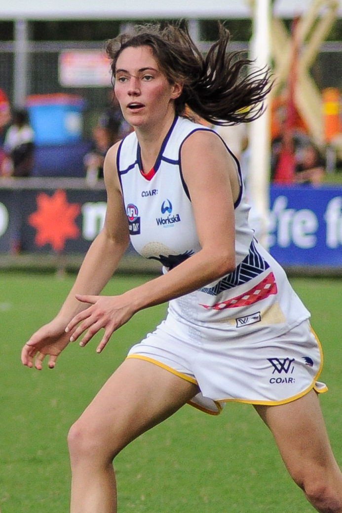 Rachael Killian during the AFL Women's round six match between Adelaide and Melbourne on 11 March 2017 at TIO Stadium in Darwin, Northern Territory